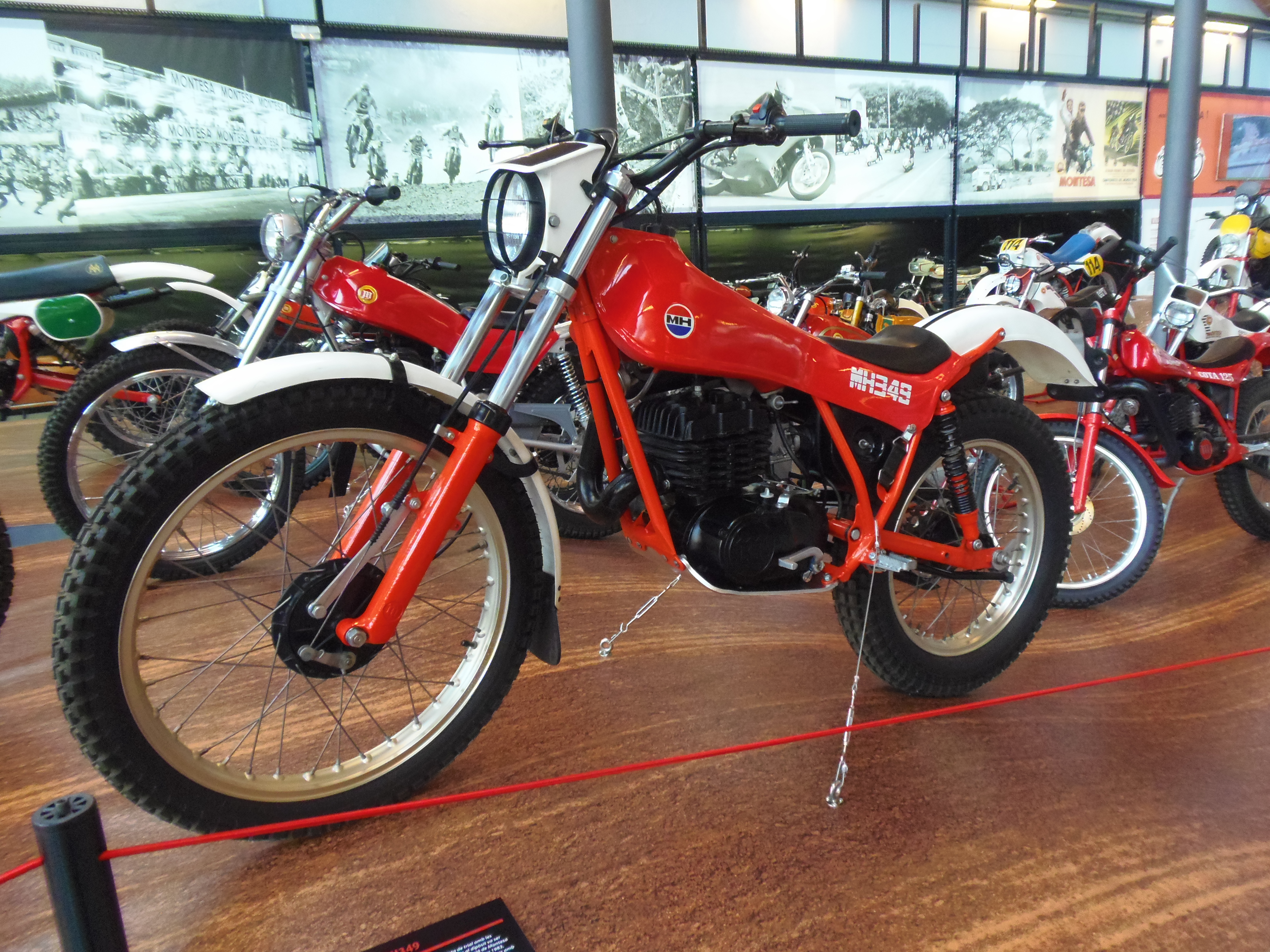 Montesa-Honda MH 349, 1982